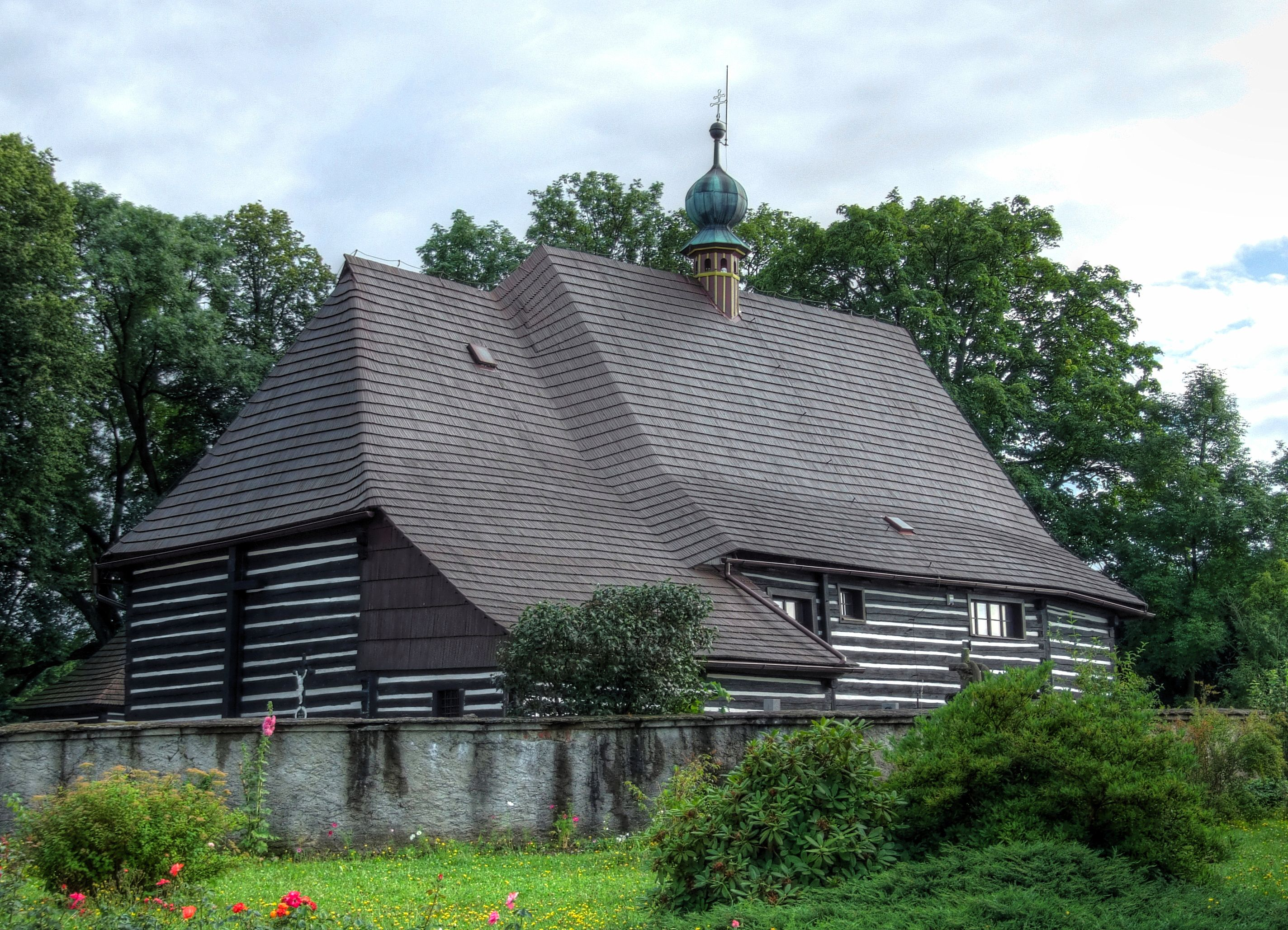 Wooden church of St. John the Baptist, Slavoňov, Czech Republic. Built in 1553.